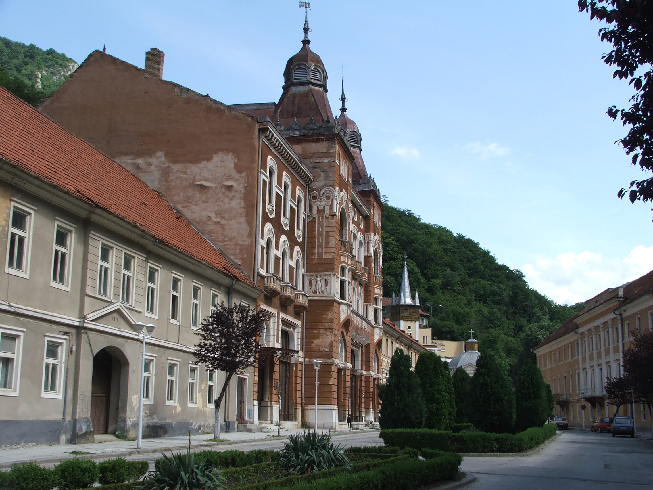 Herkulesfürdő - Baile Herculane Ruined Hotel from the Austro-Hungarian time